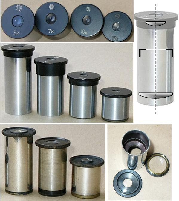 Huygens type microscope eyepieces.